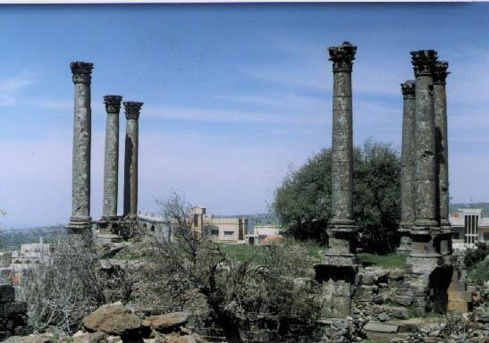 Temple previously believed to be to Helios, but now known to be dedicated to local God Rabbos - see Qanawat article